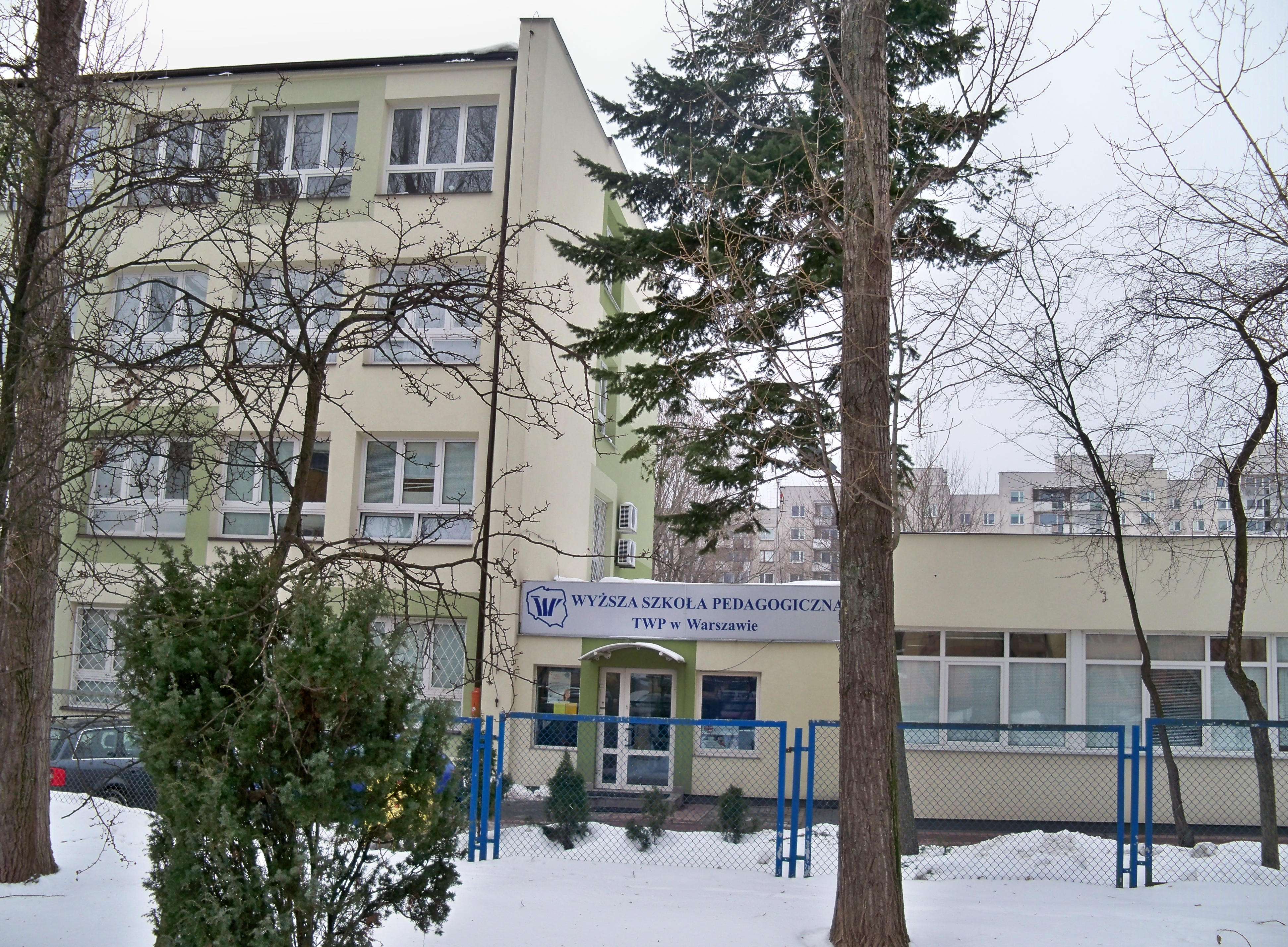 The Higher School of Pedagogy of the Society of Public Knowledge in Warsaw